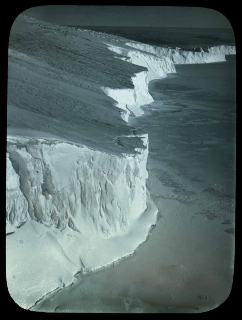 The ice-cliff coastline east of winter quarters, Adelie Land [Australasian Antarctic Expedition, 1911-1914].